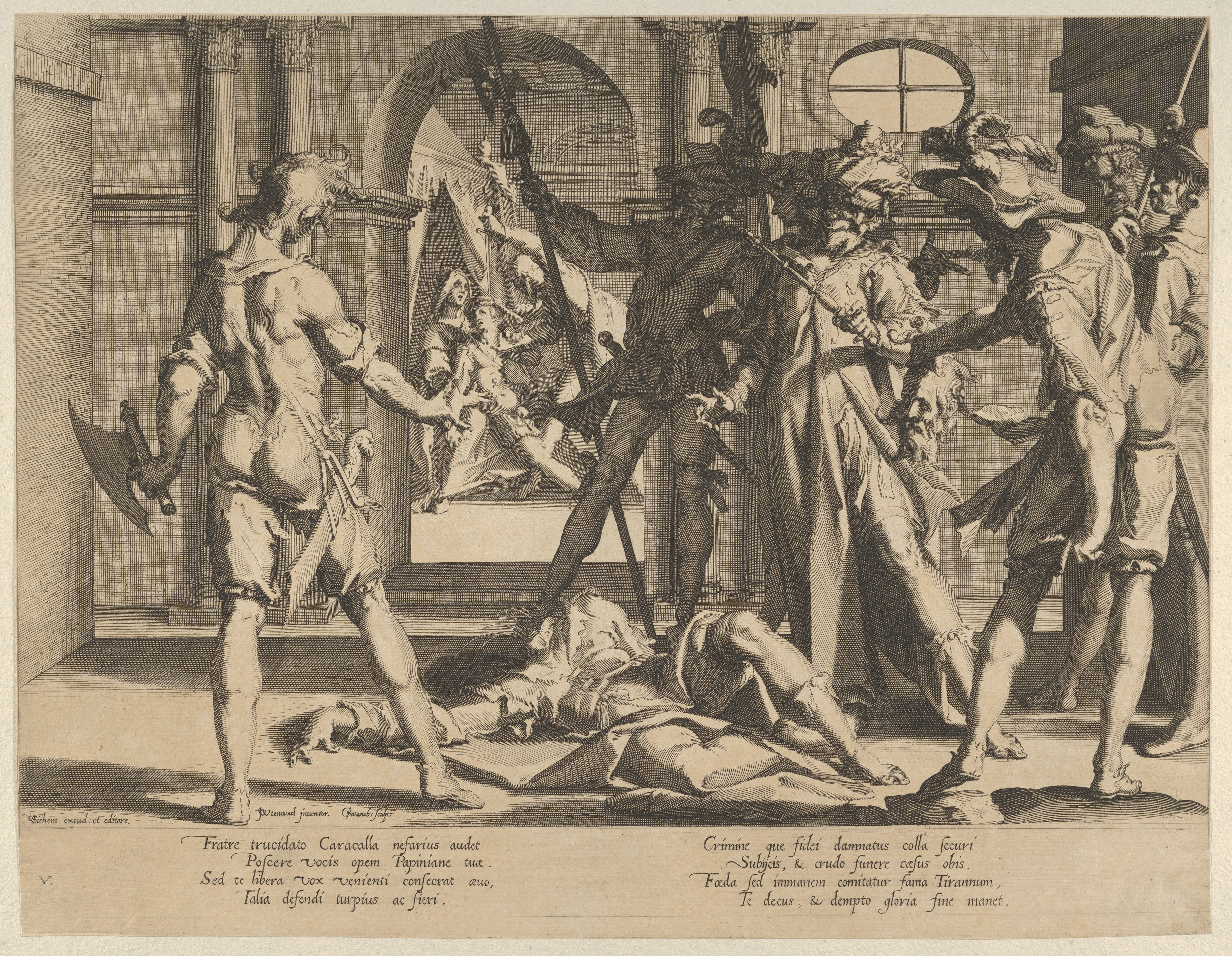 Prints